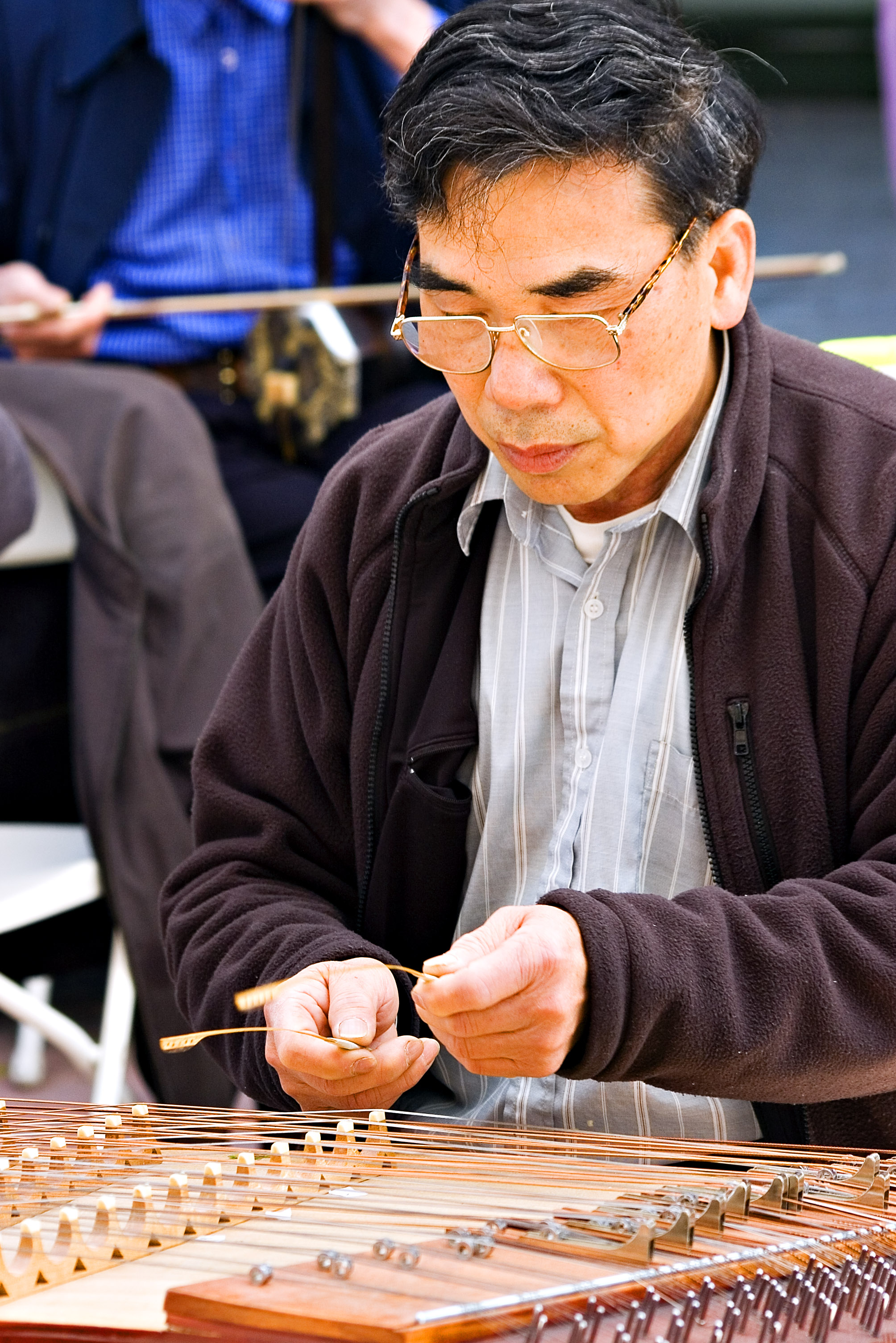 A musician playing a yangqin with a Cantonese street band. Taken in Chinatown, San Francisco, United States, with a a Pentax K100D digital camera.